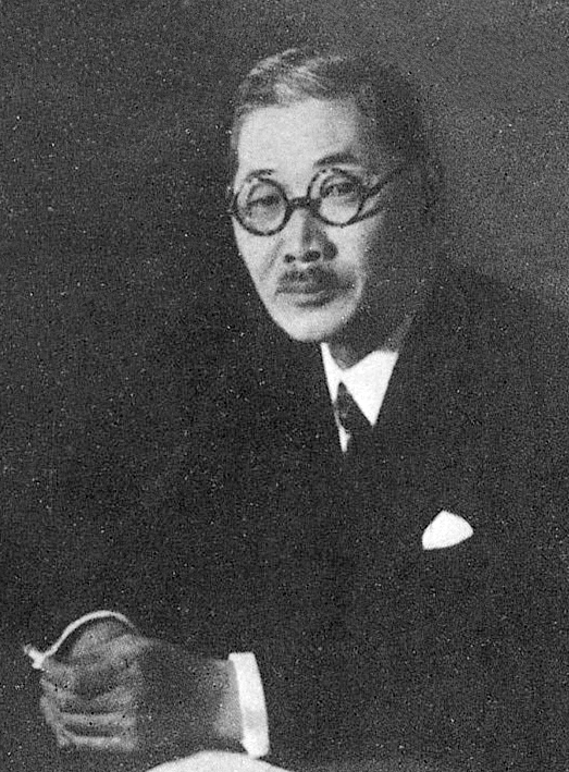 Portrait of Togo Shigenori (東郷茂徳, 1882 – 1950)